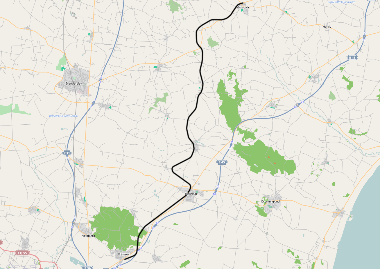 Railway line Vodskov - Østervrå